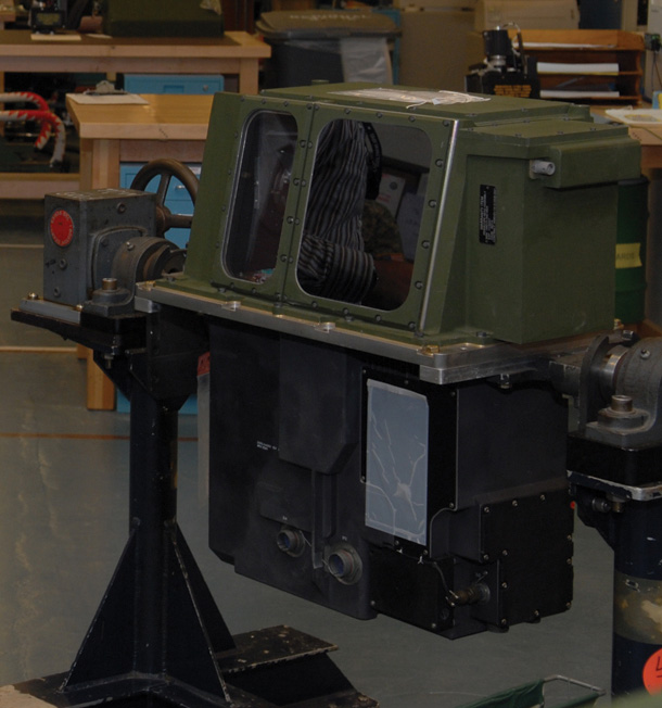 The Integrated Sight Unit